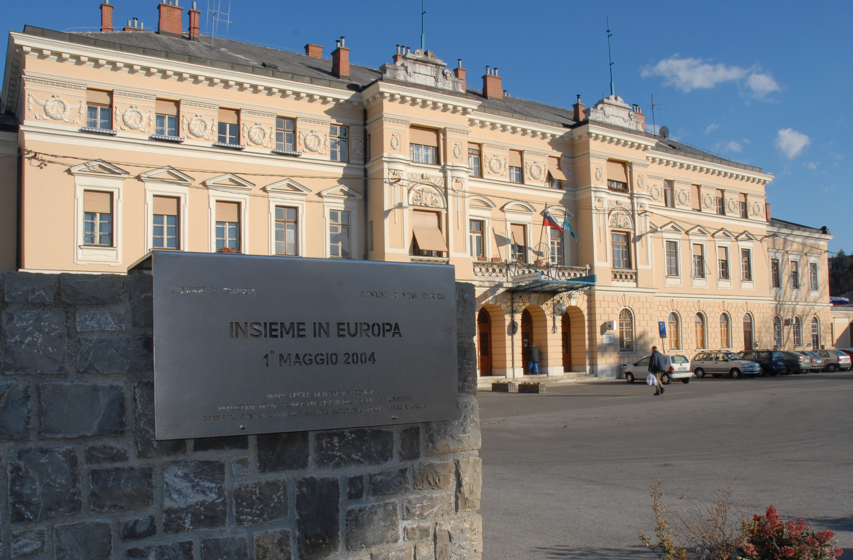 INSIEME IN EUROPA